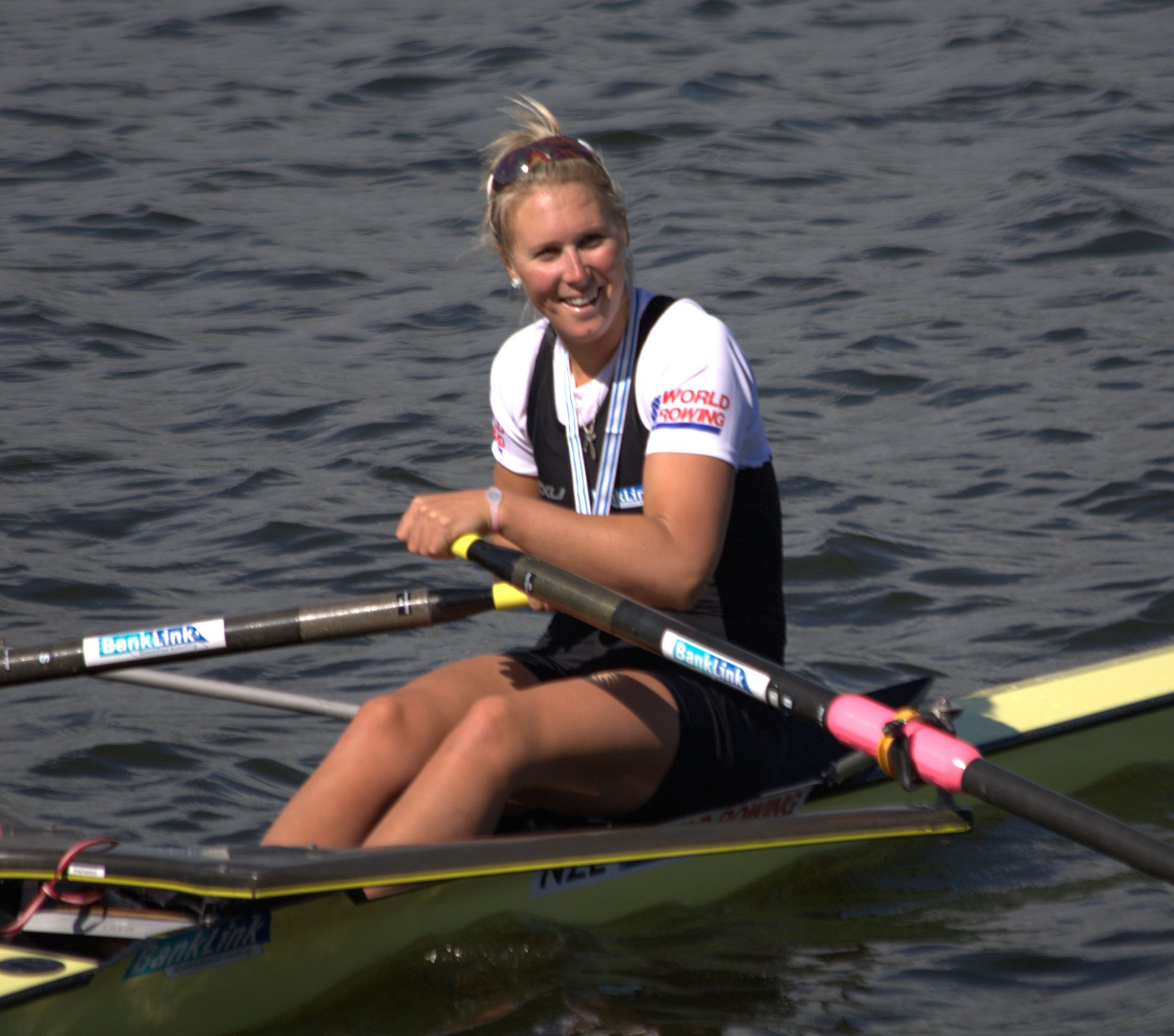 NZ's singles bronze medallist. 2010 World Rowing Championships.